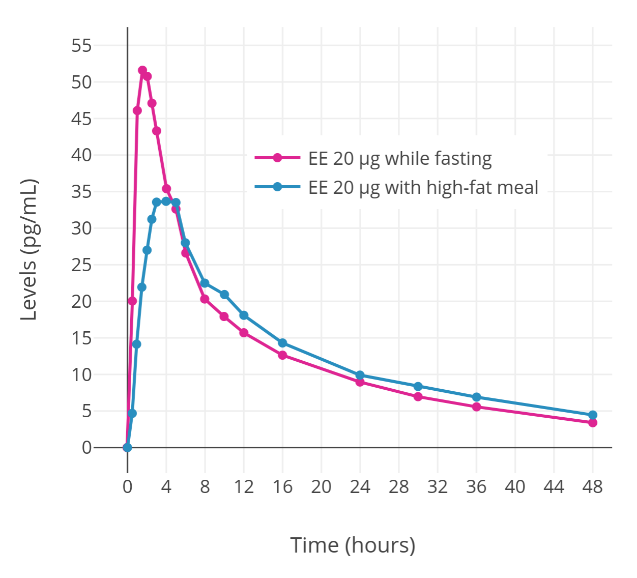 Ethinylestradiol levels while fasting or with a high-fat meal following ingestion of a single oral dose of 20 µg ethinylestradiol and 2 mg norethisterone acetate in women. Source of the values: (January 2003). "The effect of food on the bioavailability of norethindrone and ethinyl estradiol from norethindrone acetate/ethinyl estradiol tablets intended for continuous hormone replacement therapy". J Clin Pharmacol 43 (1): 52–8. PMID 12520628. (2005). "Pharmacology of estrogens and progestogens: influence of different routes of administration". Climacteric 8 Suppl 1: 3–63. PMID 16112947.